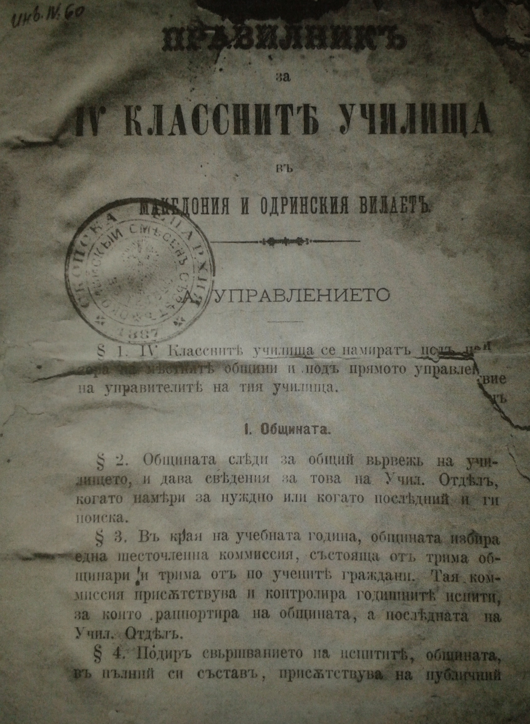 Regulations for the Schools in Macedonia and Adrianople Vilayet